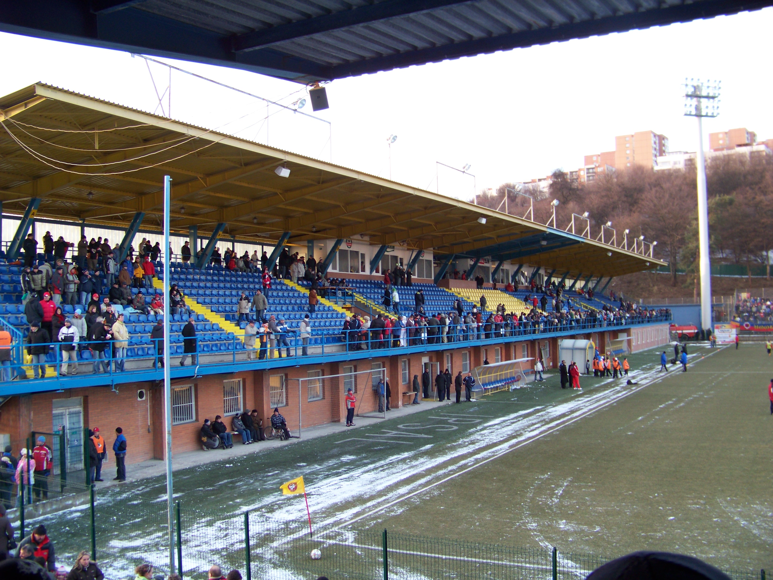 West stand of Letná Stadium in Zlín